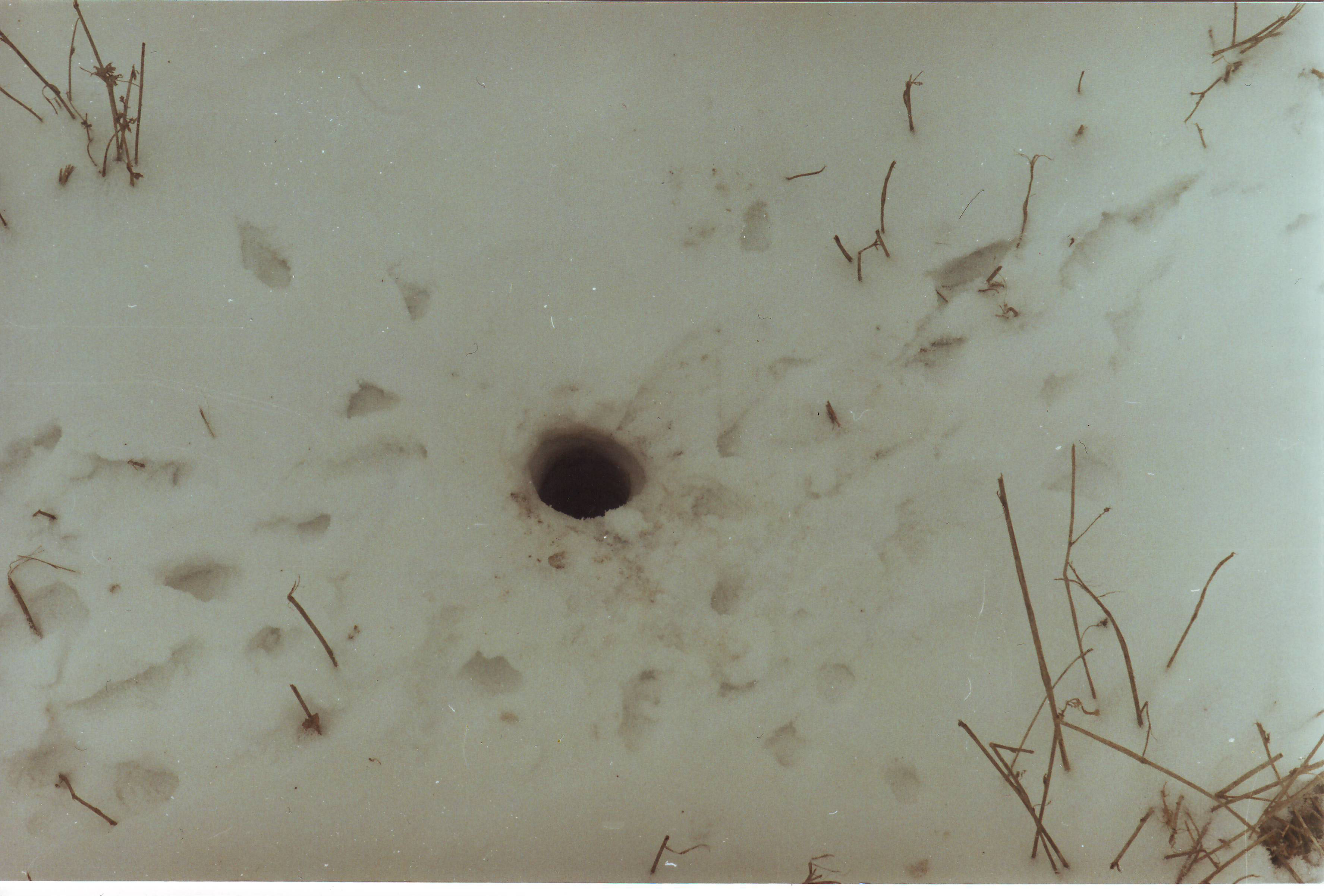 Speckled ground squirrel burrow. Odesa oblast, Ukraine.